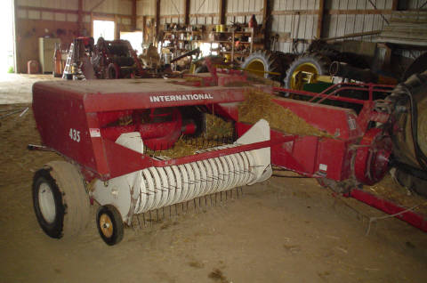 An IHC International 435 square baler in a shed somewhere in the USA. It produces small bales composed of hay or straw. Material is gathered through the front, is compacted together, and is ejected into a wagon.